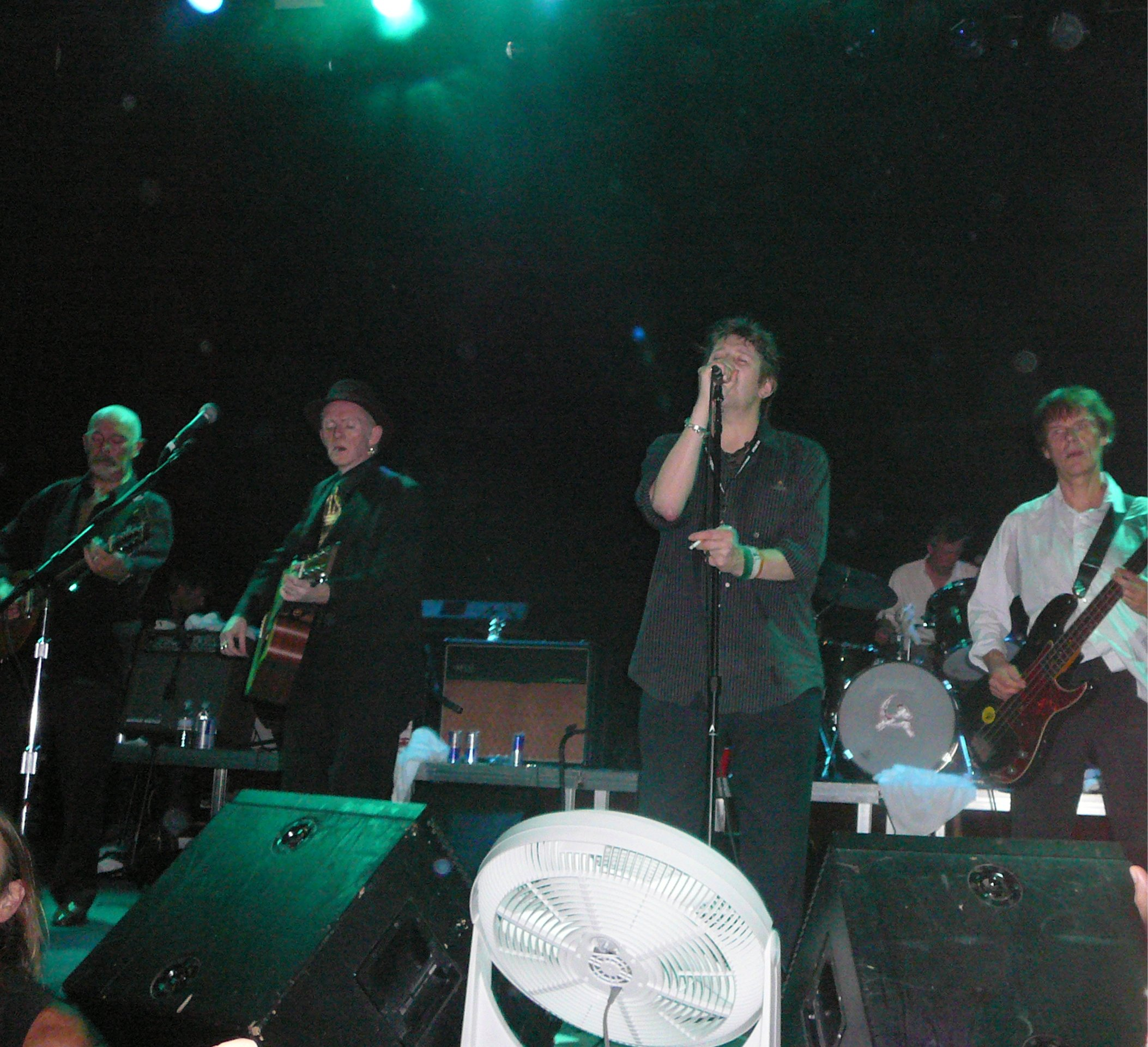 The Pogues